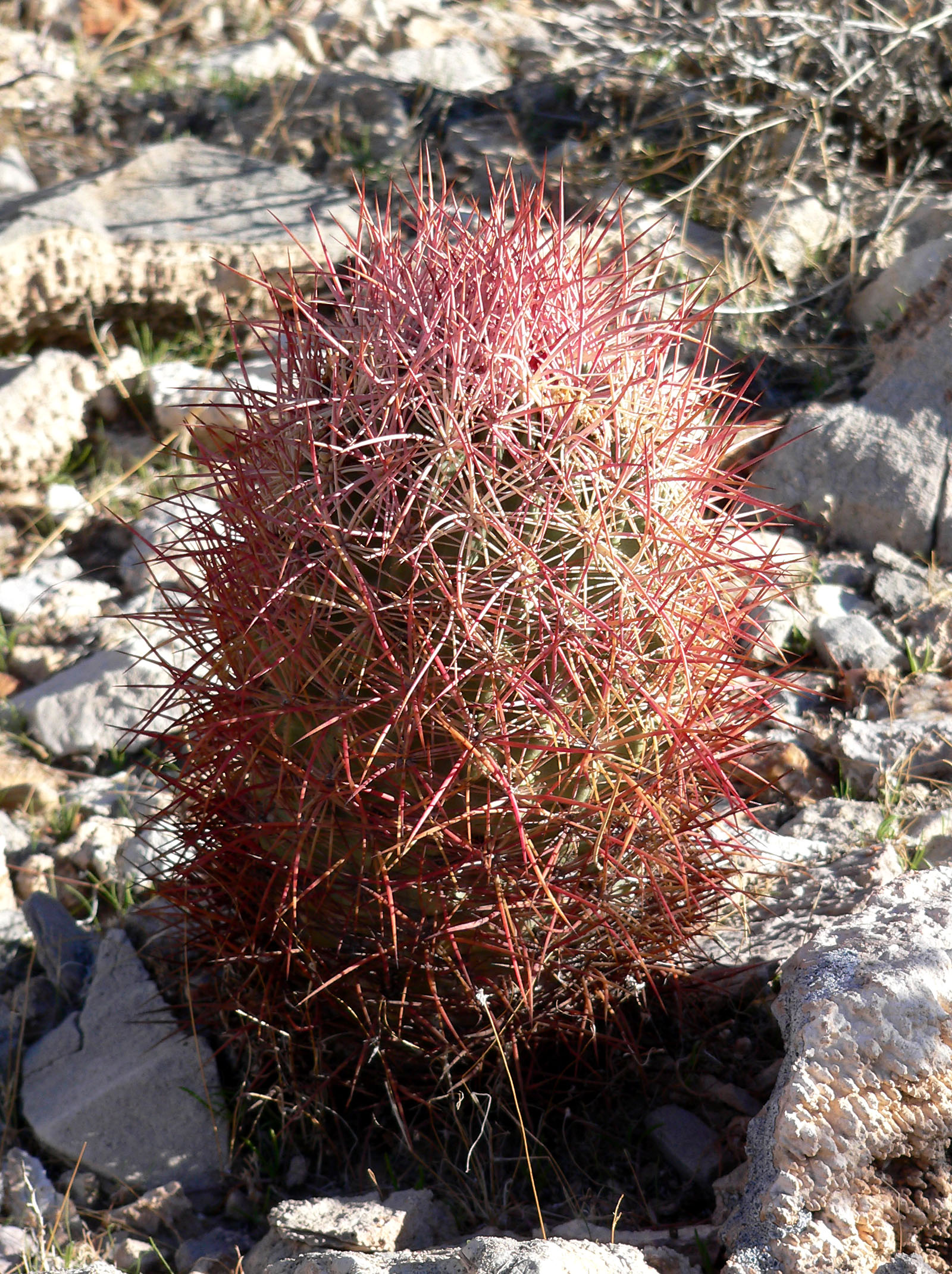 Echinomastus johnsonii on Frenchman Mountain, just east of Las Vegas, Nevada